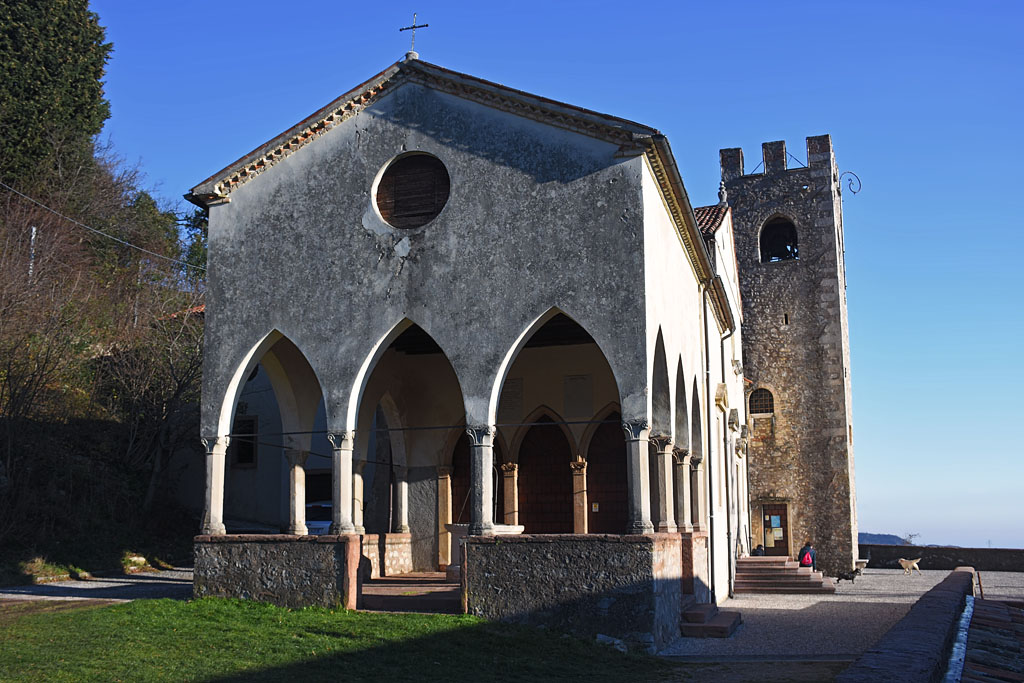 Serravalle, Sanctuario di Santa Augusta.